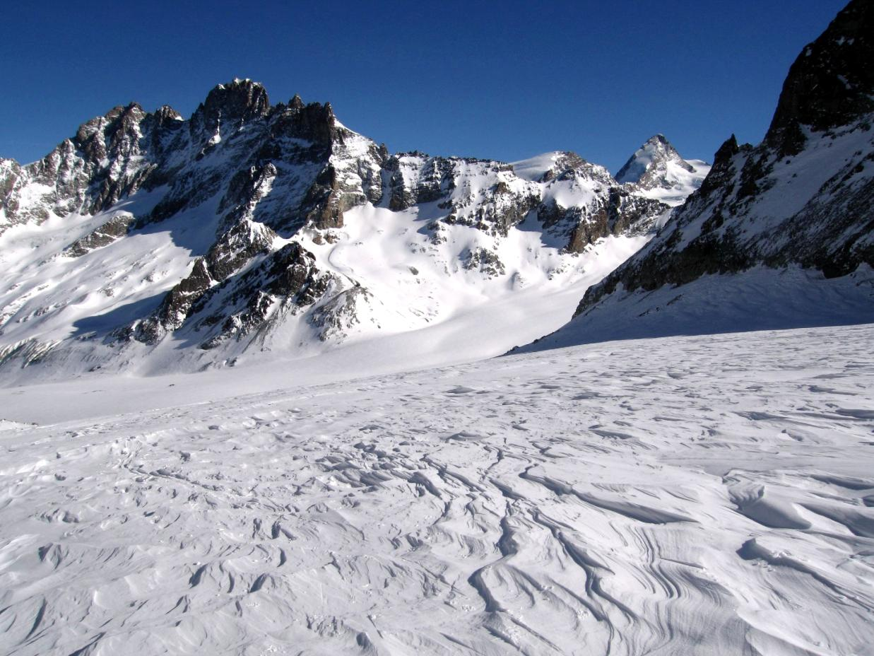 Bouquetins chain seen from Col Collon, near Arolla